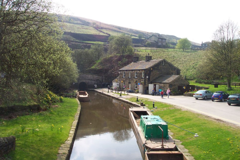 The eastern end of the Standege Canal Tunnel and Tunnel End Cottages, Marsden, West Yorkshire. For more information see the Wikipedia article Standedge Tunnels.